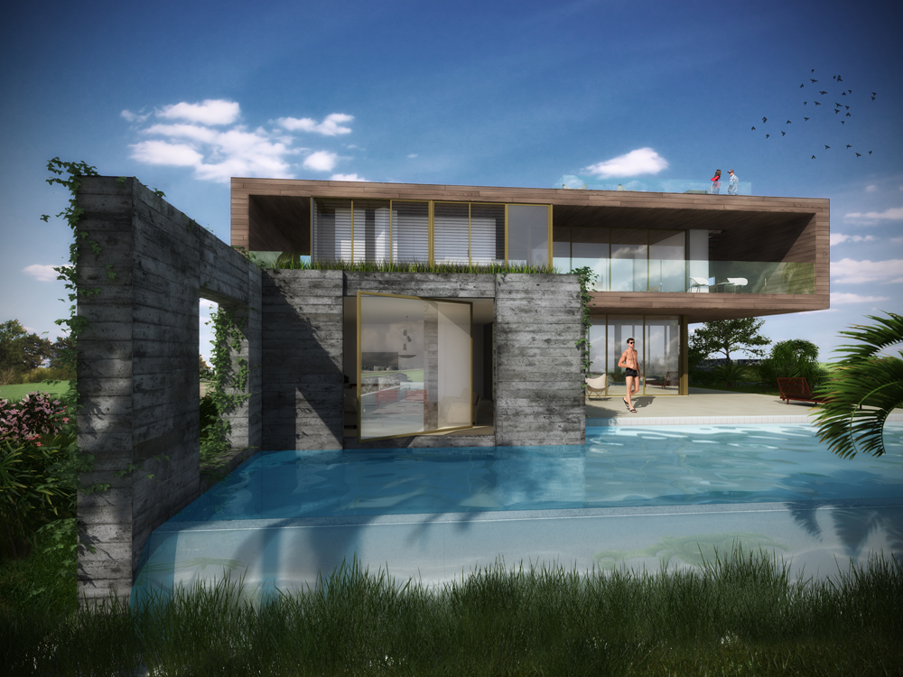 Rendering of the VIA MARINA project.